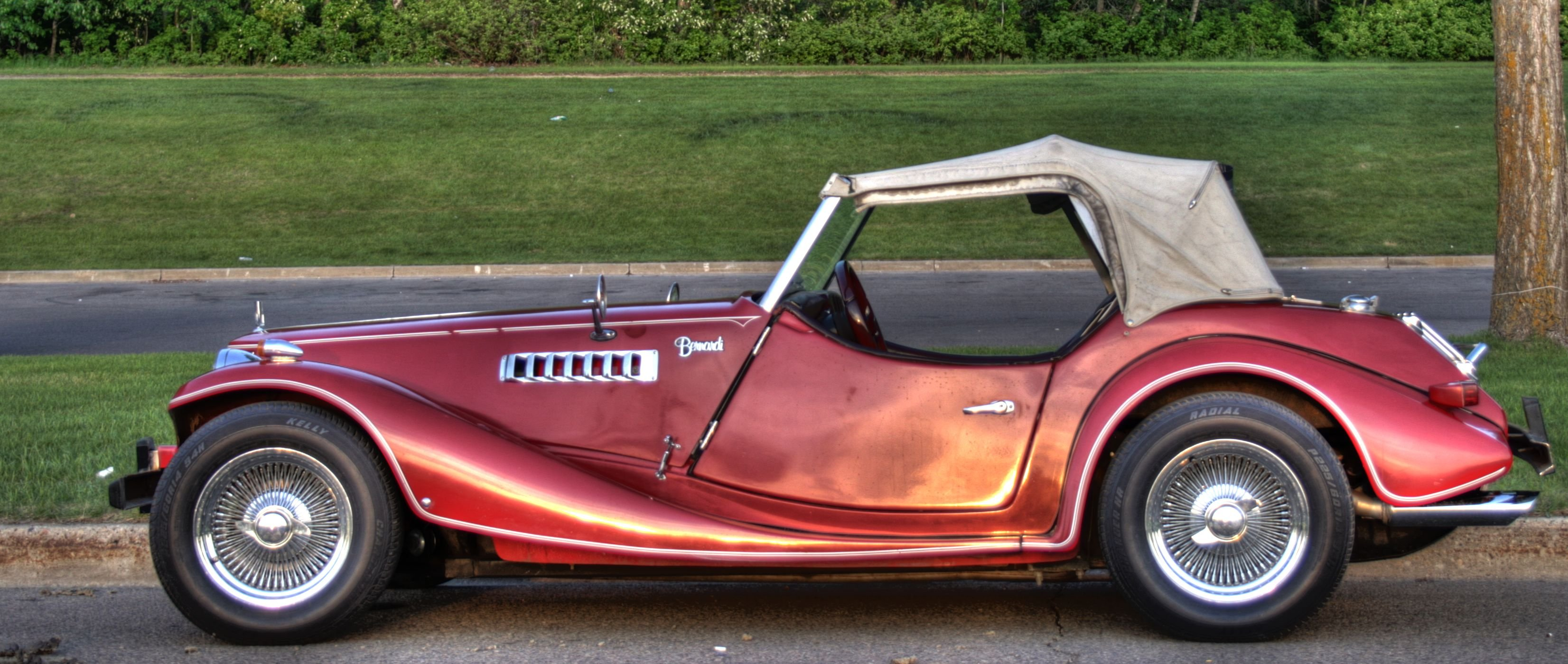 Side view of a 1988 Blakely Bernardi.